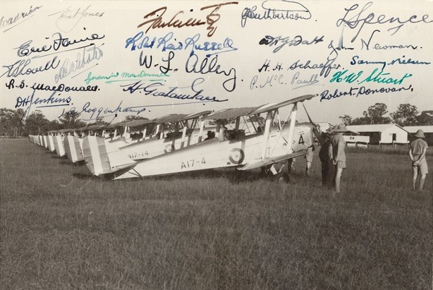 Lord Gowrie, Governor General of Australia, inspecting de Havilland DH82 Tiger Moth Trainer Aircraft at the No 2 Elementary Flying Training School, Archerfield, Queensland. This photograph was signed by recruits training at the No 2 Elementary Flying Training School at the time of Lord Gowrie's visit.